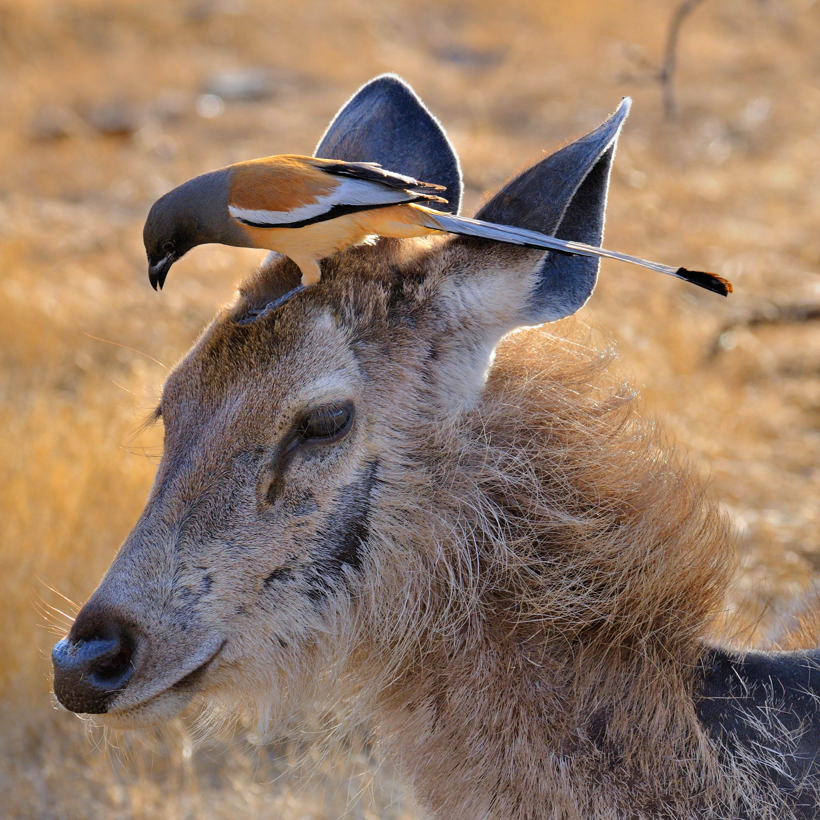 An Rufous Treepie in India. It is standing on the head of a deer presumably to feed on flies, fleas or practices.